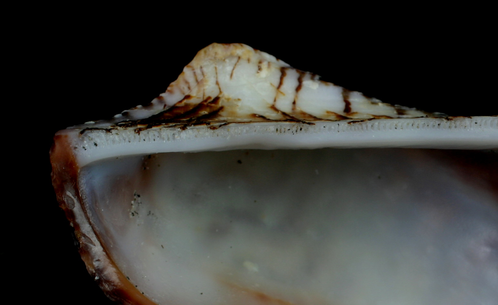 Arcidae close up taxodont hinge